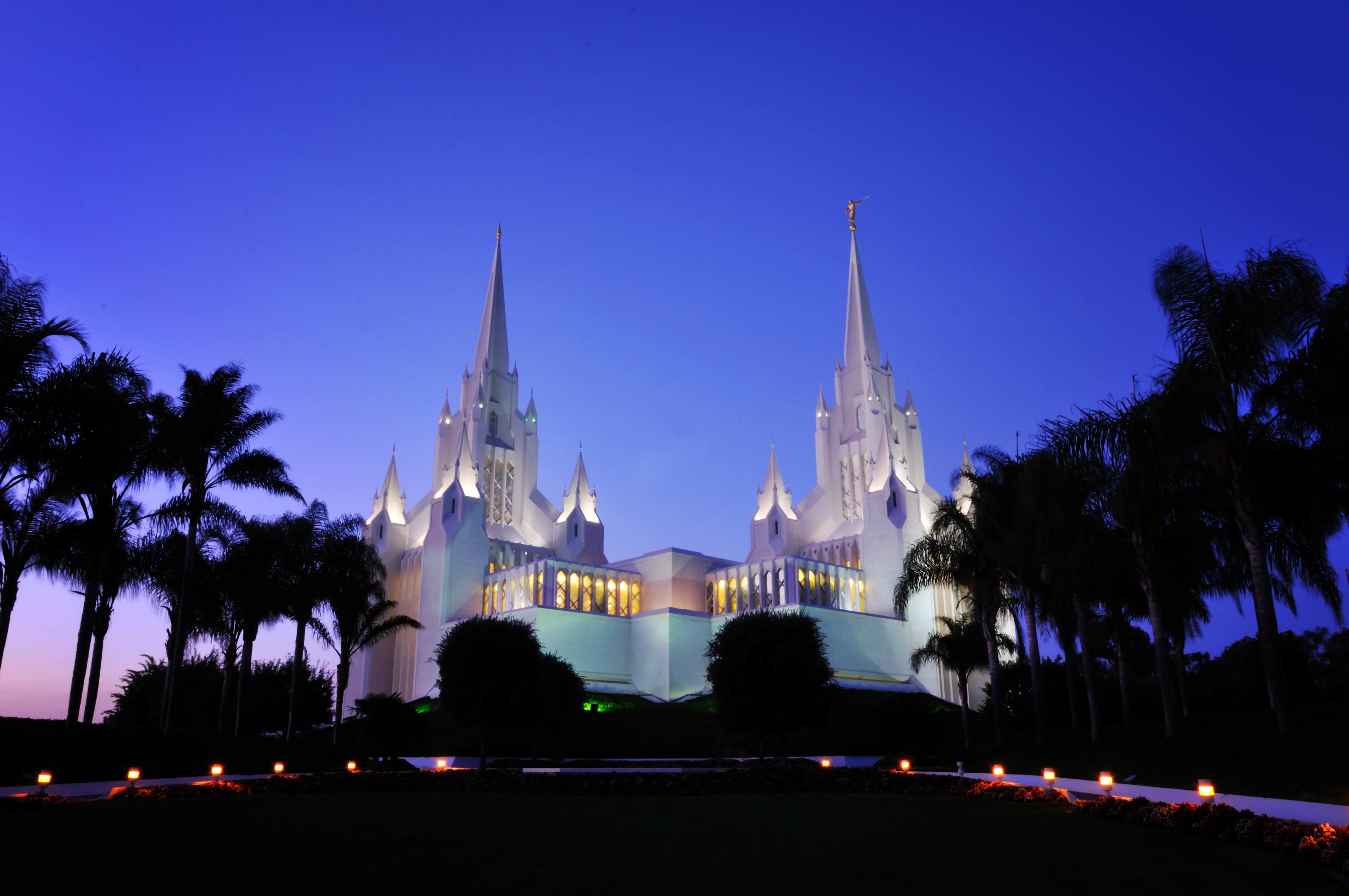 The San Diego California Temple of The Church of Jesus Christ of Latter-day Saints, at twilight.